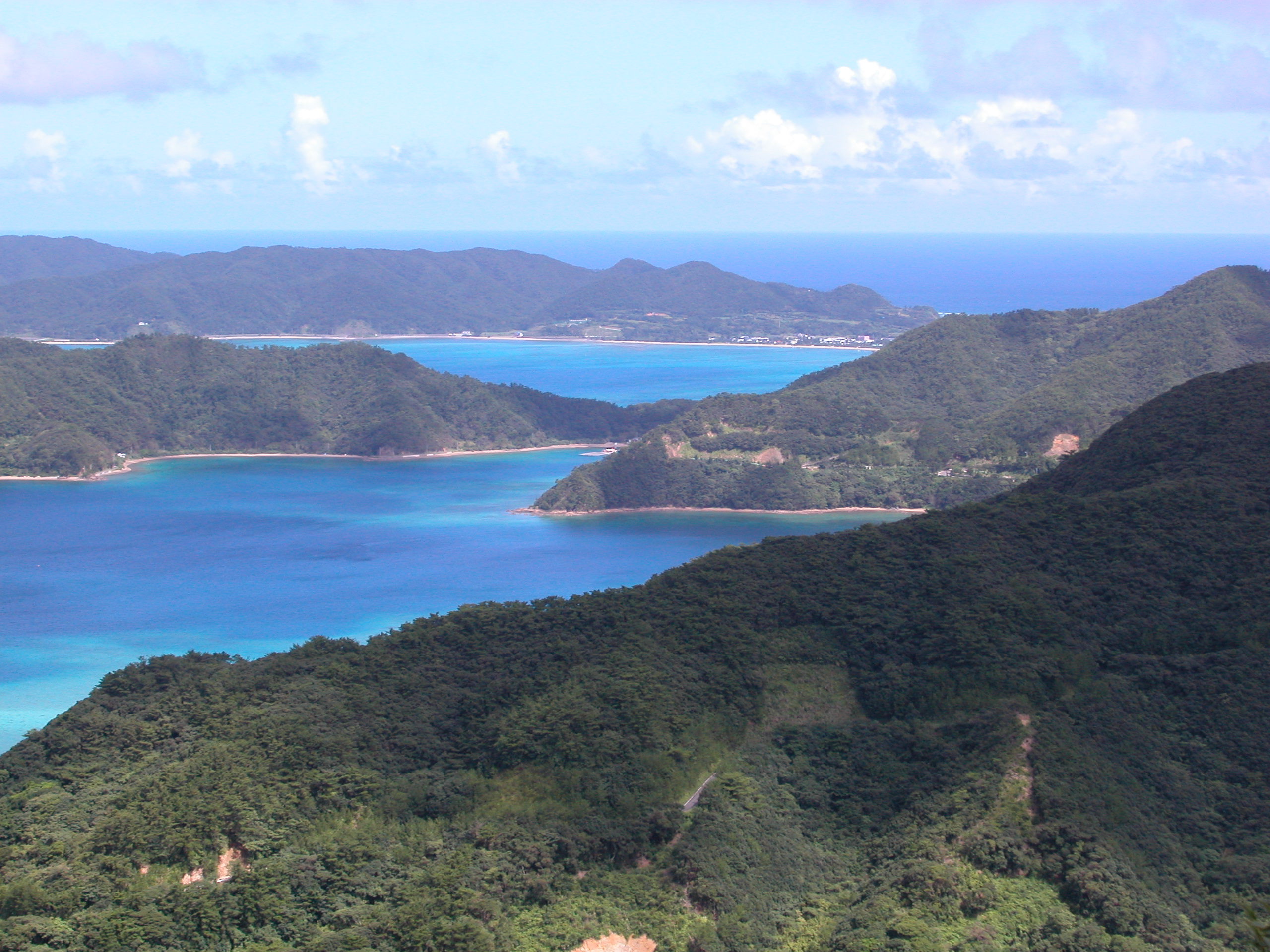 A beach in Amami City, Kagoshima.